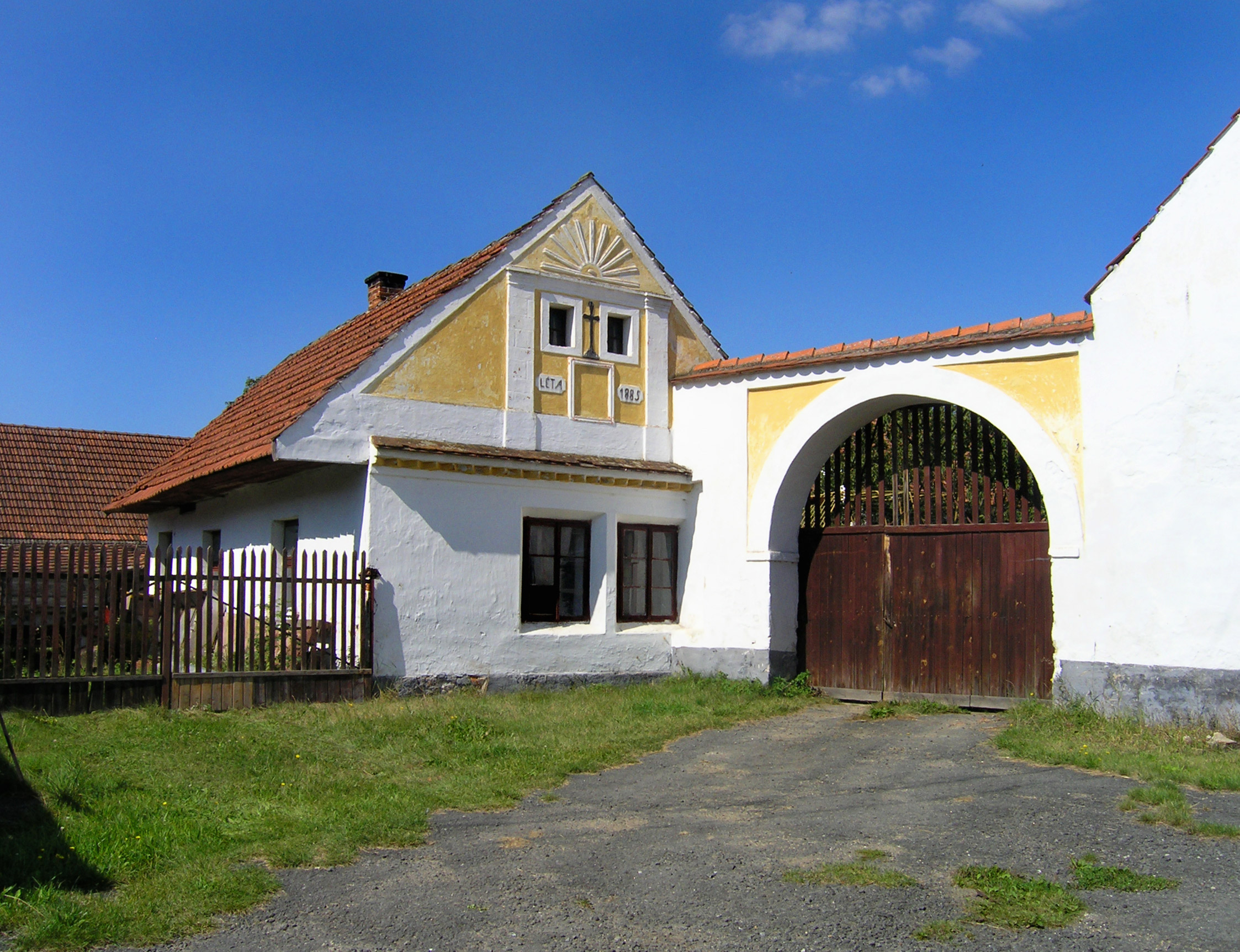 Old Farm in Zhoř u Tábora village, Czech Republic